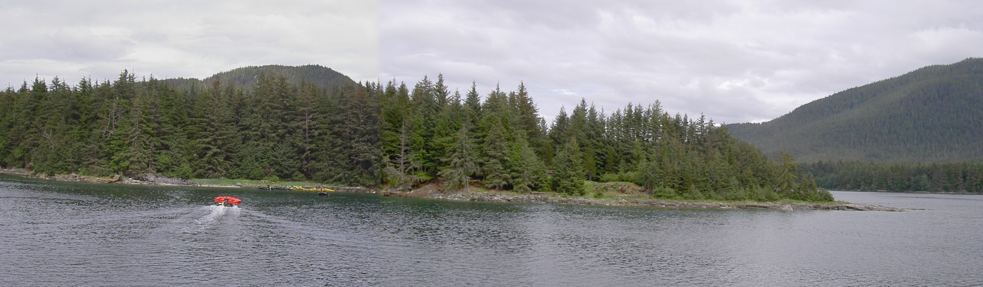 Coot Cove off Funter Bay on the Mansfield Peninsula of Admiralty Island in southeastern Alaska, United States, looking north, with kayaks and zodiacs; a montage of two photos taken on 2011-08-02